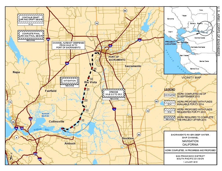 Sacramento Deep Water Ship Channel map form spn.usace.army.mil